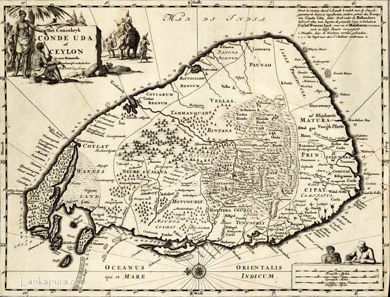 Original version A new map of the kingdom of Candy Uda, in the island of Ceylon /​ printed for Richard Chiswell at ye Rose &​ Crown in St. Pauls Churchyard London : s.n., [1681?]